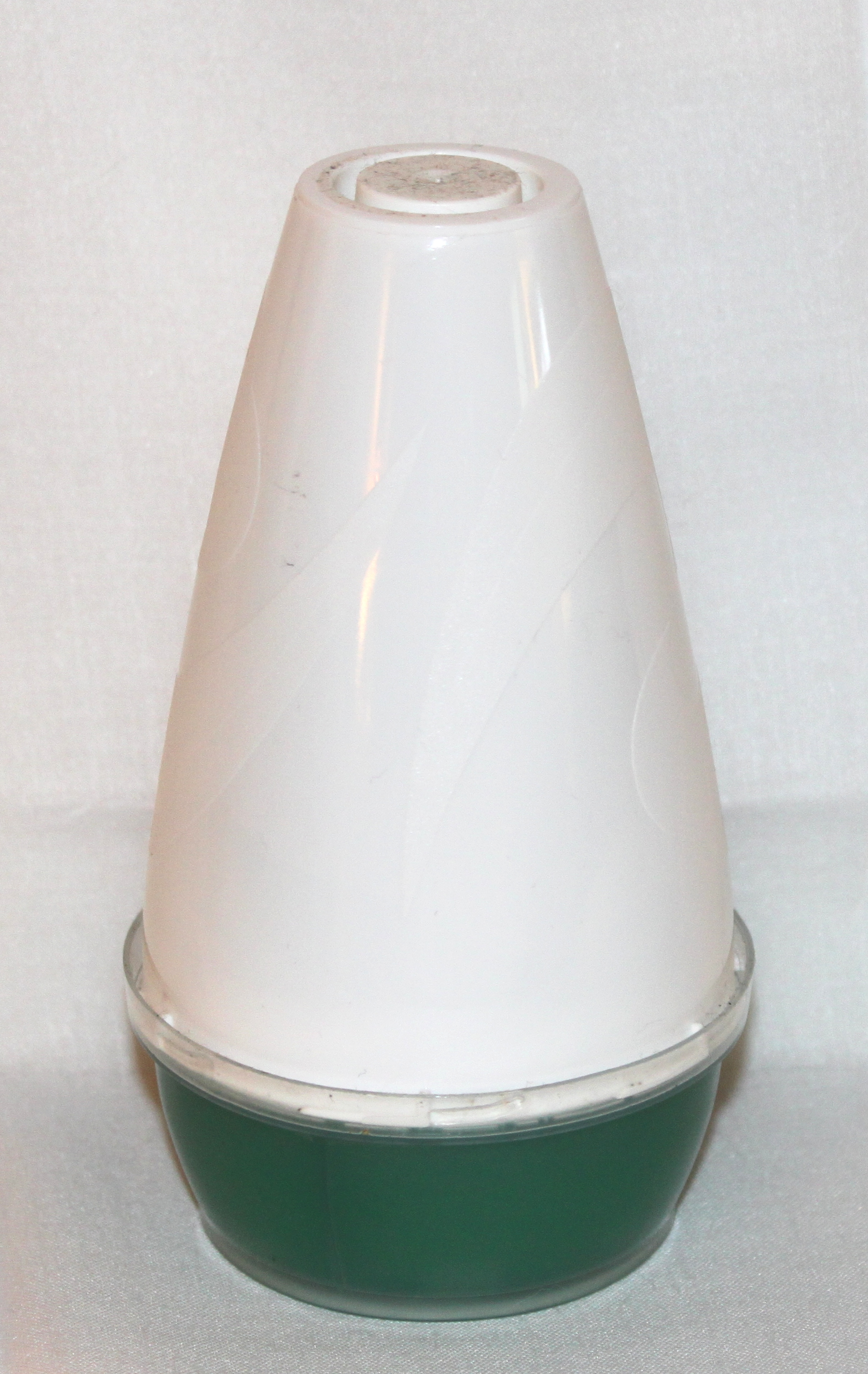 Renuzit air freshener dispenser.